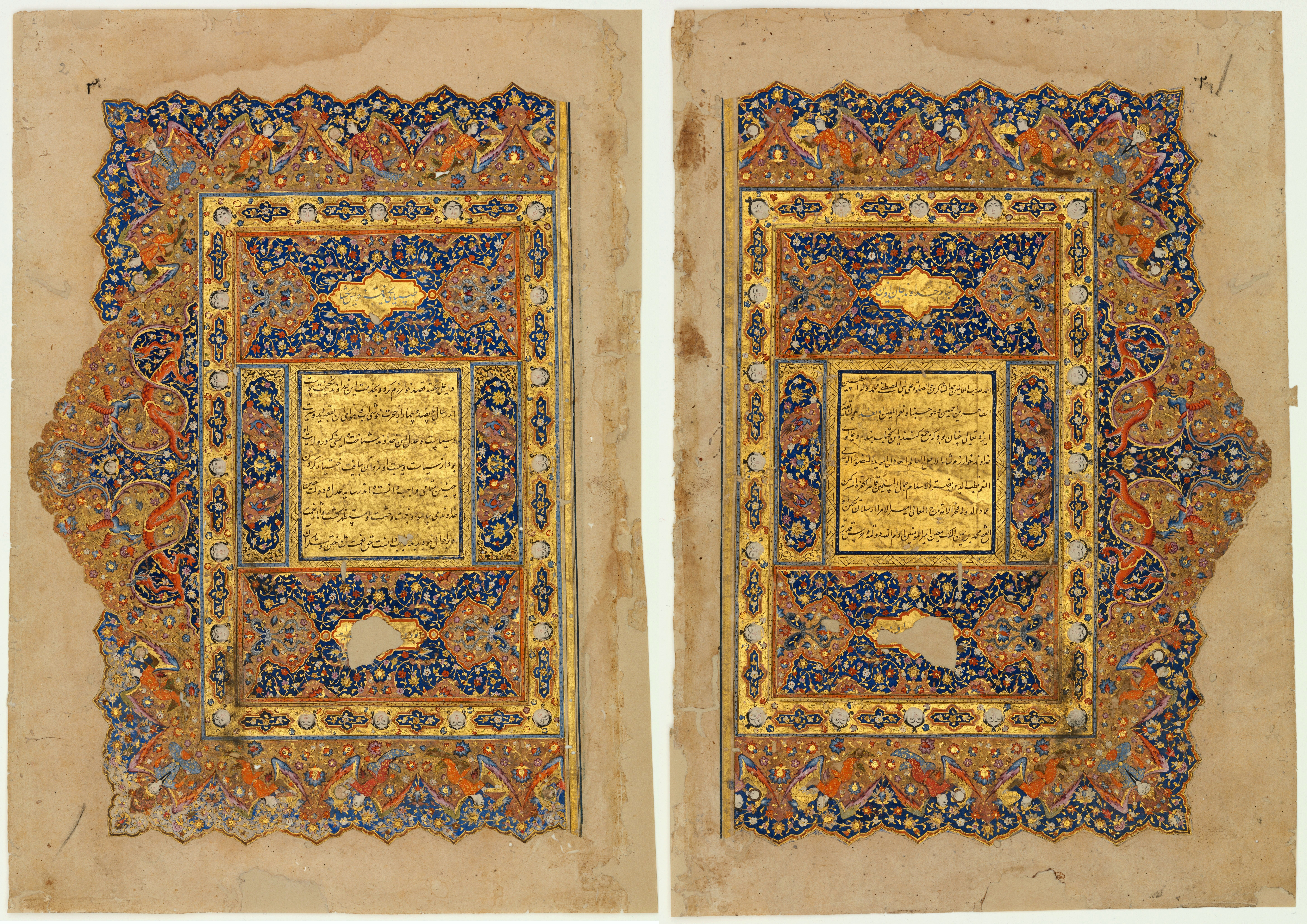 Double frontispiece from the Treasure of the Khwarazmshah (Zakhira-yi Khwarazmshahi), by Zayn al-Din al-Jurjani. December 28, 1572, Chester Beatty Library